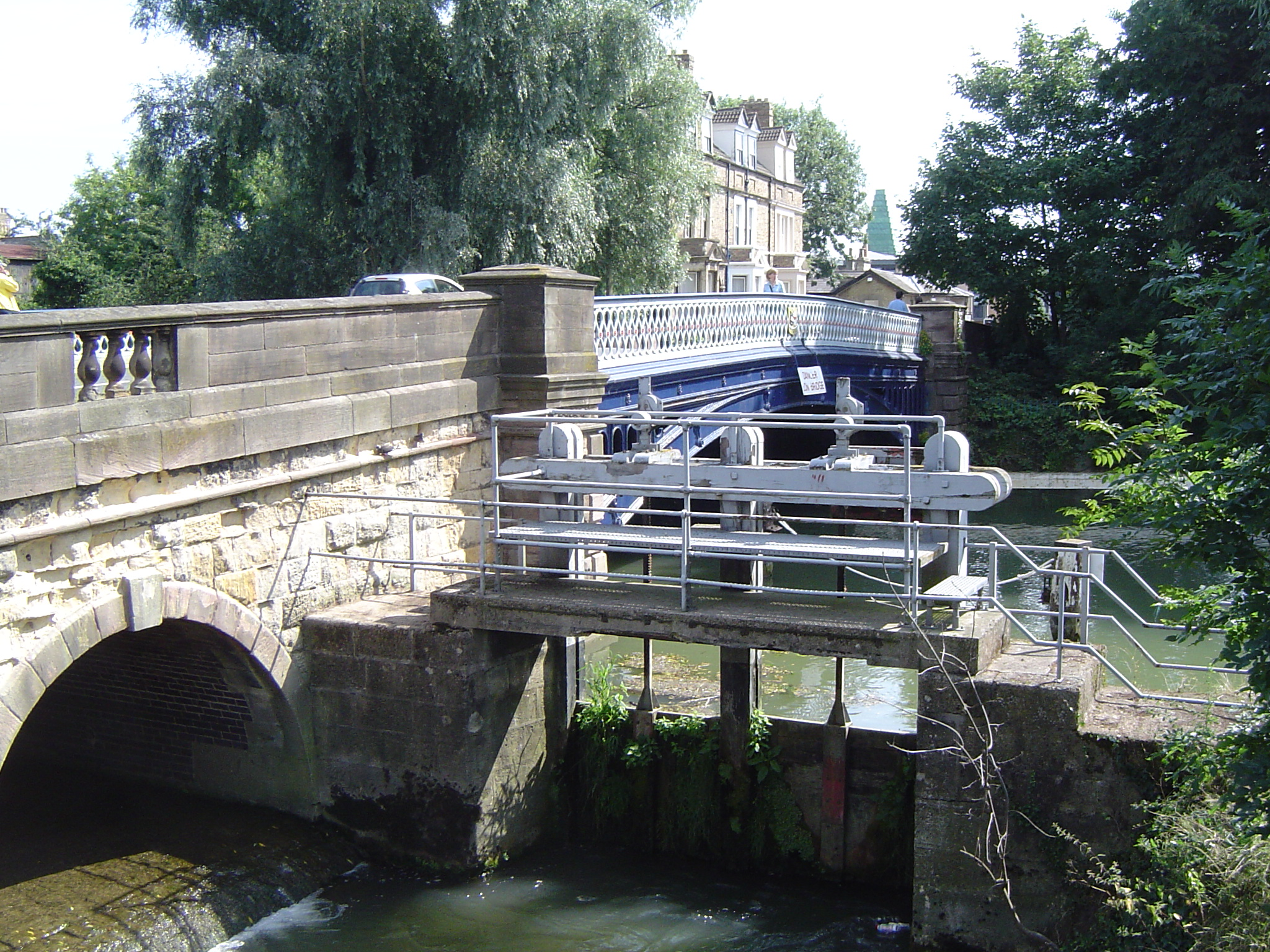 Osney Bridge, Oxford